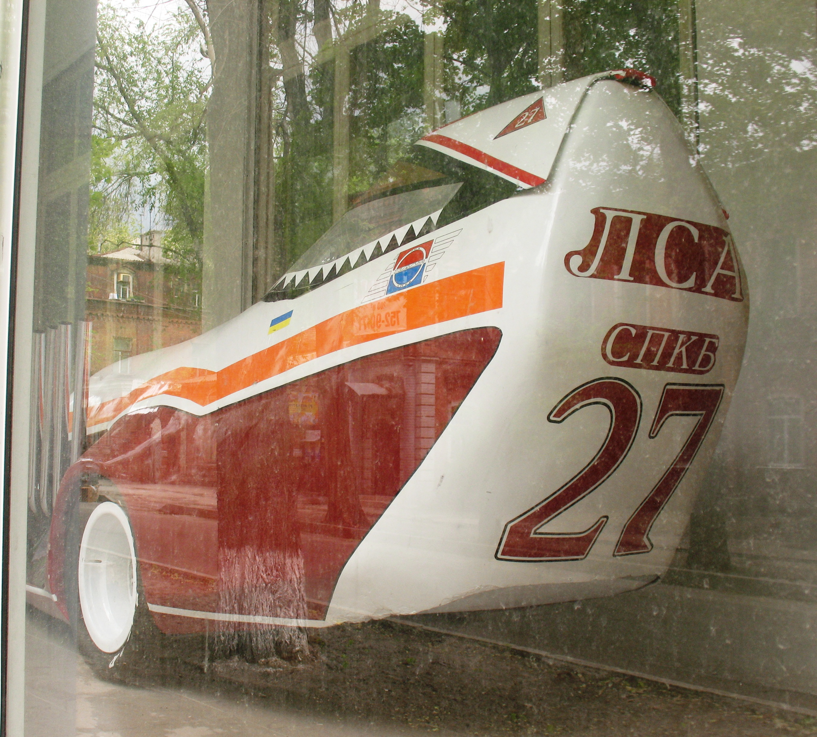 Automobile KhADI-27 (USSR) in Kharkov. Chernyshevskaya street.